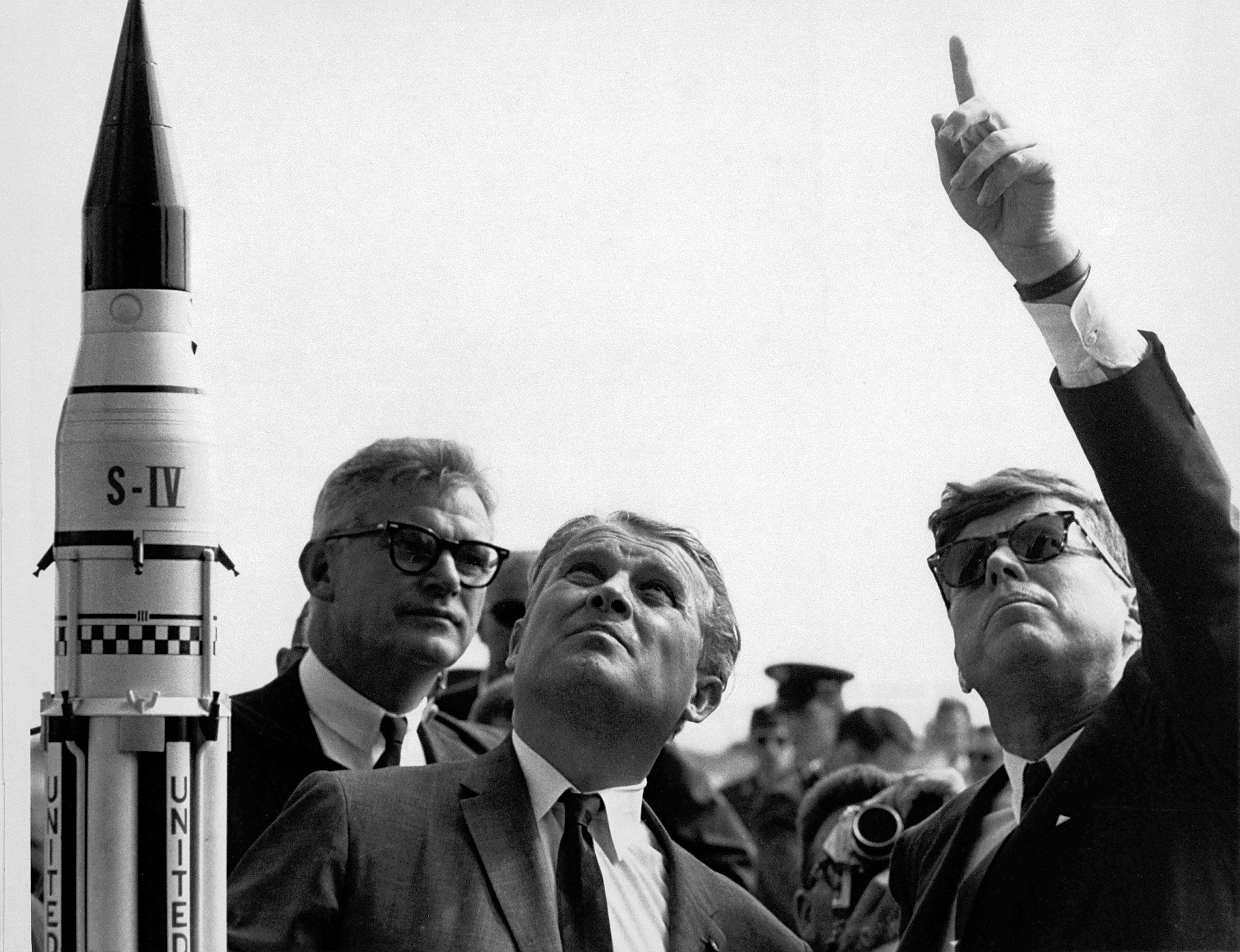 Dr. Wernher von Braun explains the Saturn Launch System to President John F. Kennedy — at Cape Canaveral, Florida.. NASA Deputy Administrator Robert Seamans is to the left of von Braun. On 16 November 1963, six days before the President's assassination.